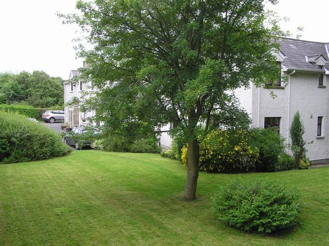 Nursing Home, Omagh. It is located near the Swinging Bars roundabout on the Hospital Road.